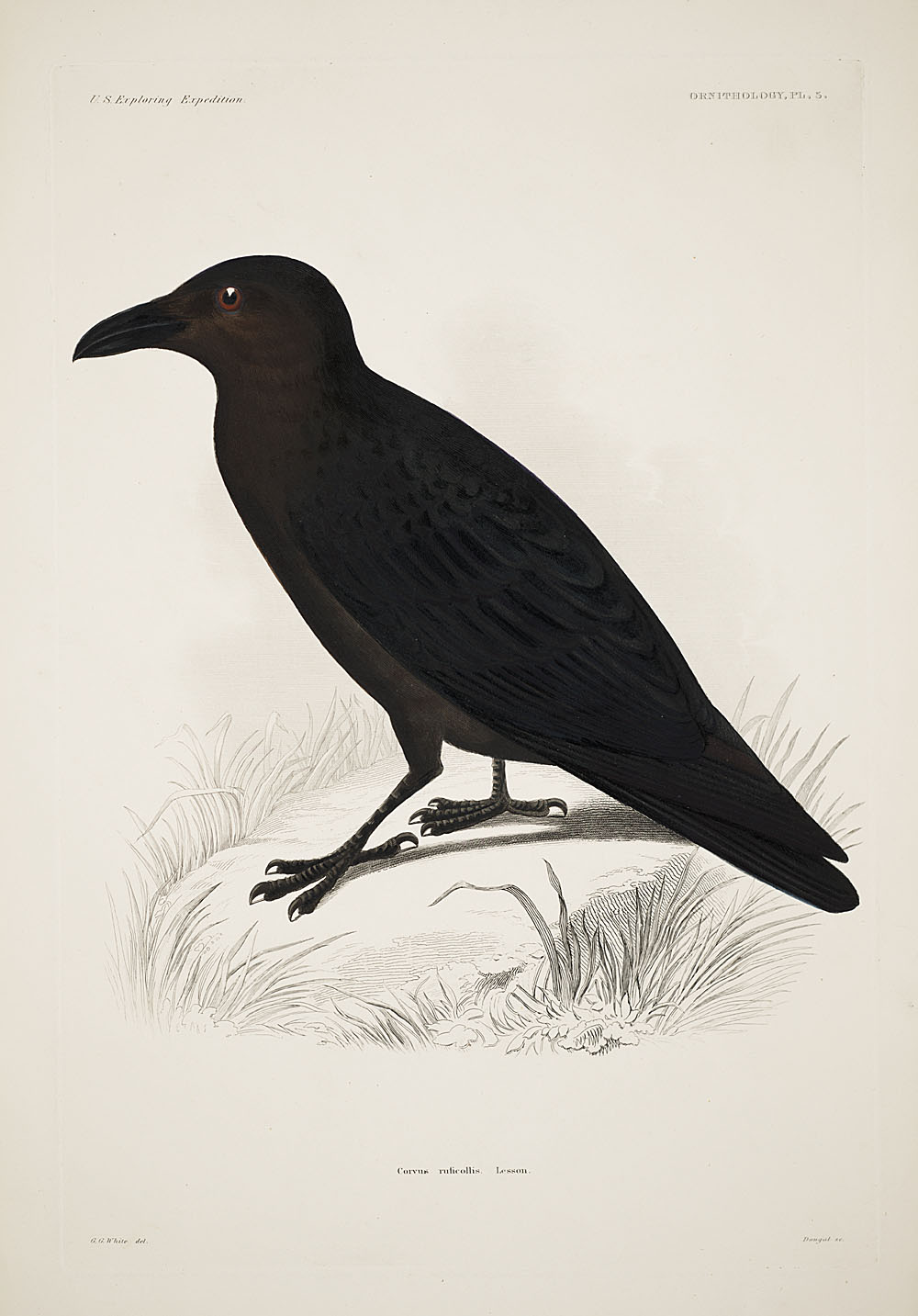 Brown-necked raven (Corvus ruficollis Lesson, 1830).